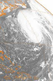 Hurricane Gabrielle southeast of Nova Scotia, Canada on September 8, 1989. ftp://eclipse.ncdc.noaa.gov/pub/isccp/b1/.D2790P/images/1989/251/Img-1989-09-08-12-GOE-7-VS.jpg